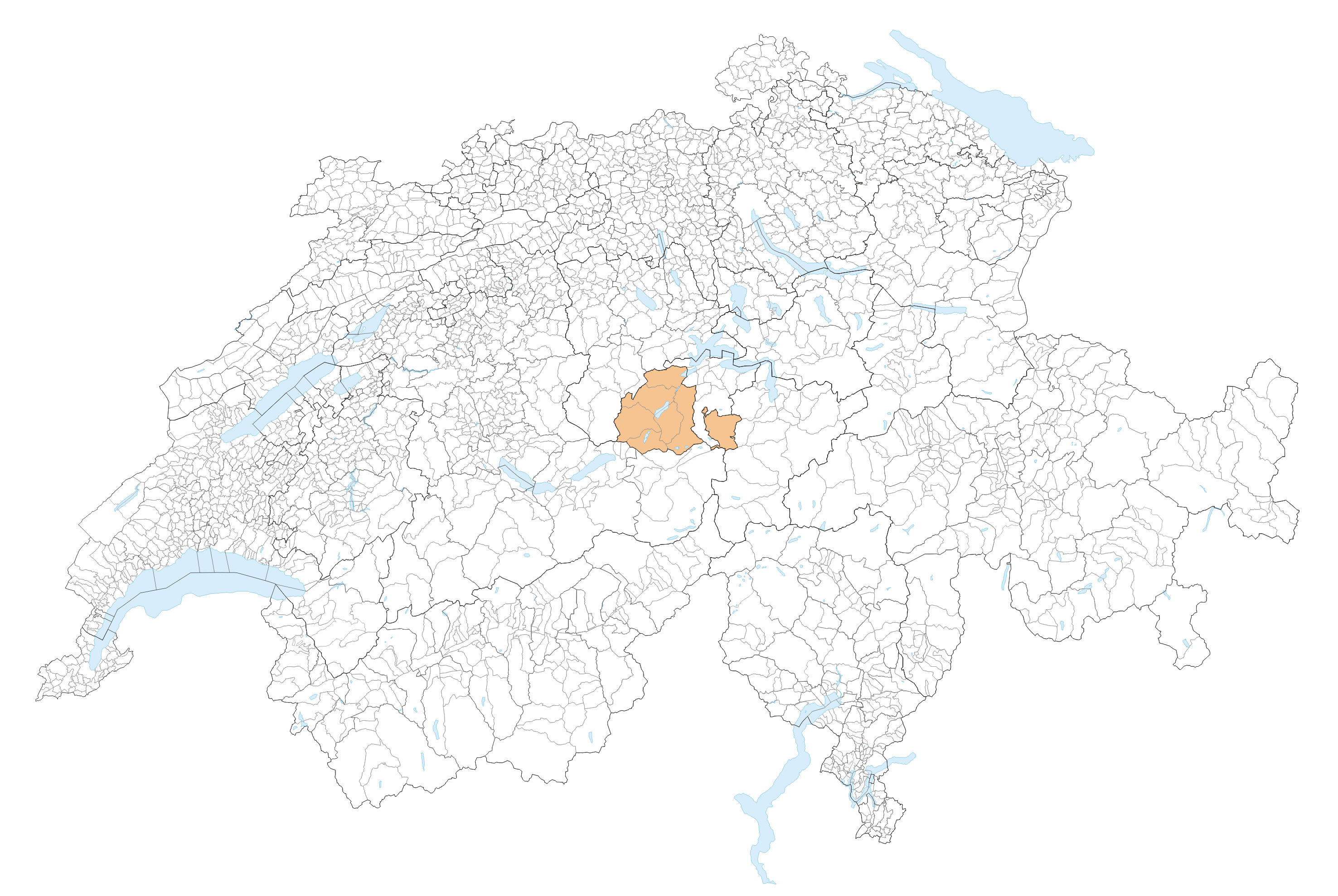 Kanton Obwalden